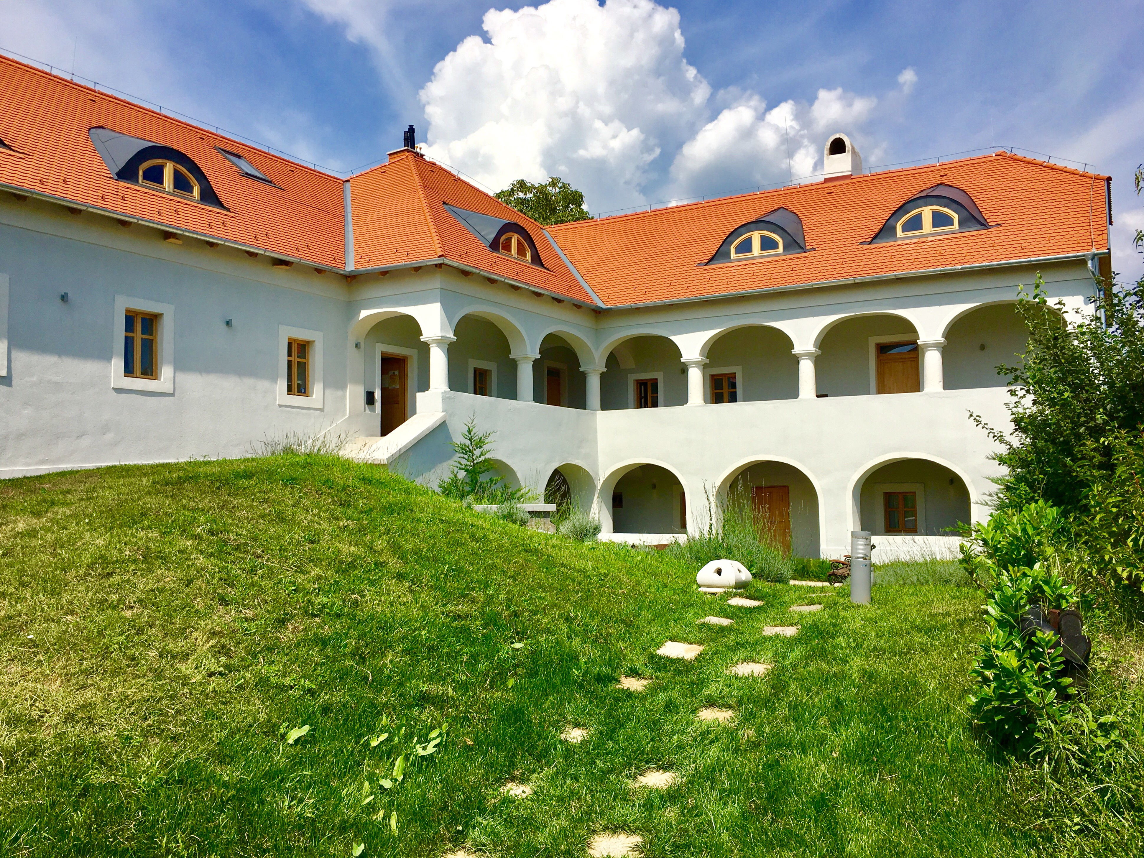 "Csodarabbik utja" Jewish pilgrim house from outside, the former yeshiva of Mad, Hungary.